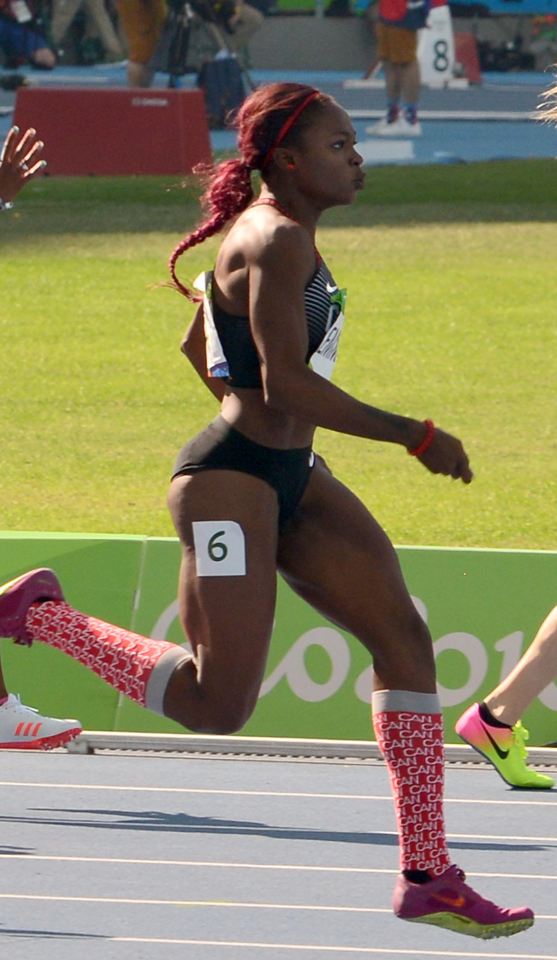 Women's 200m Round1 - Heat 1 of olympic games in Rio 2016